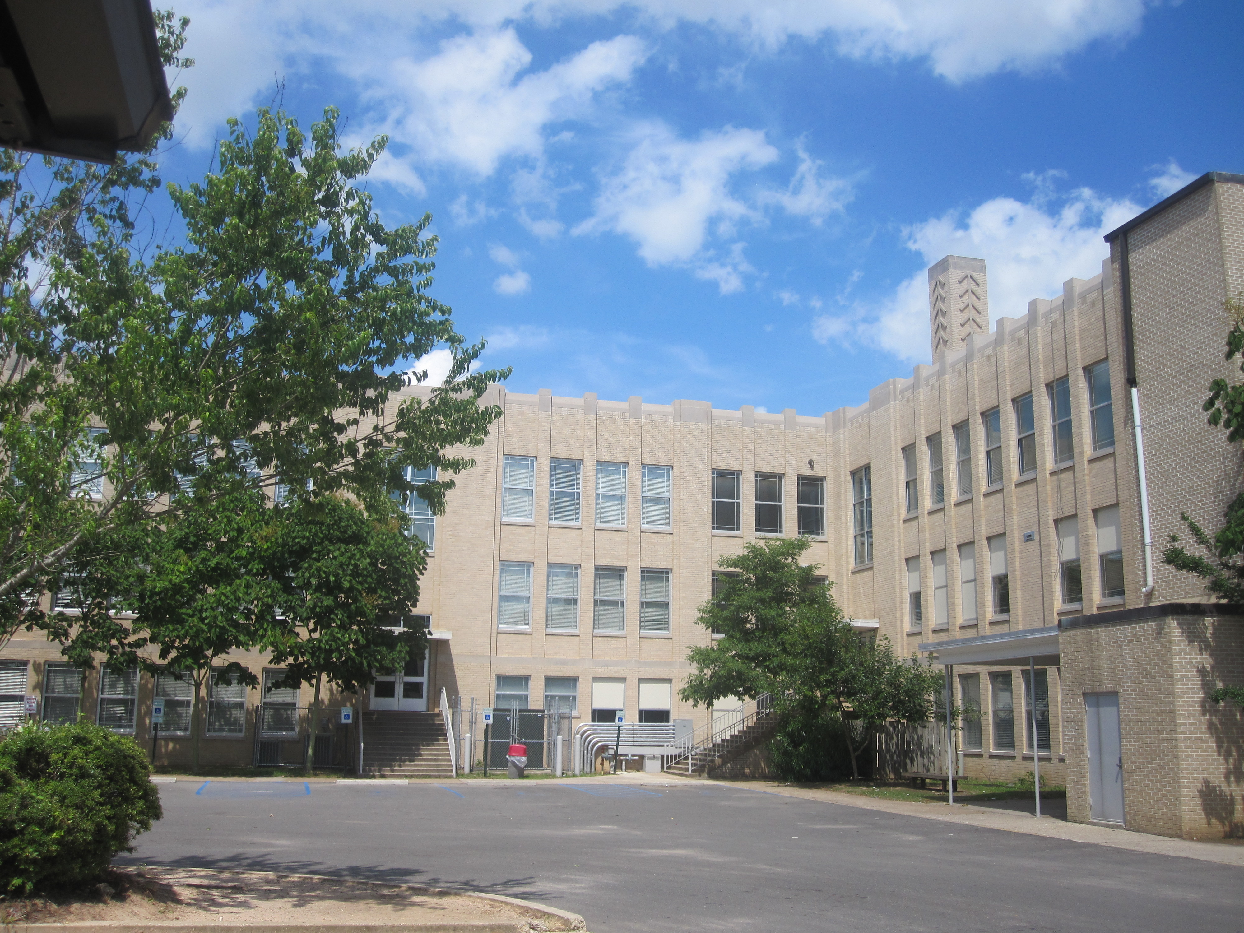 I took photo with Canon camera.